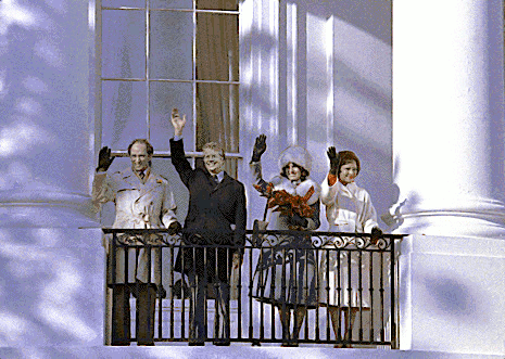 Prime Minister Pierre Trudeau of Canada, Jimmy Carter, Margaret Trudeau and Rosalynn Carter at State Visit arrival ceremony